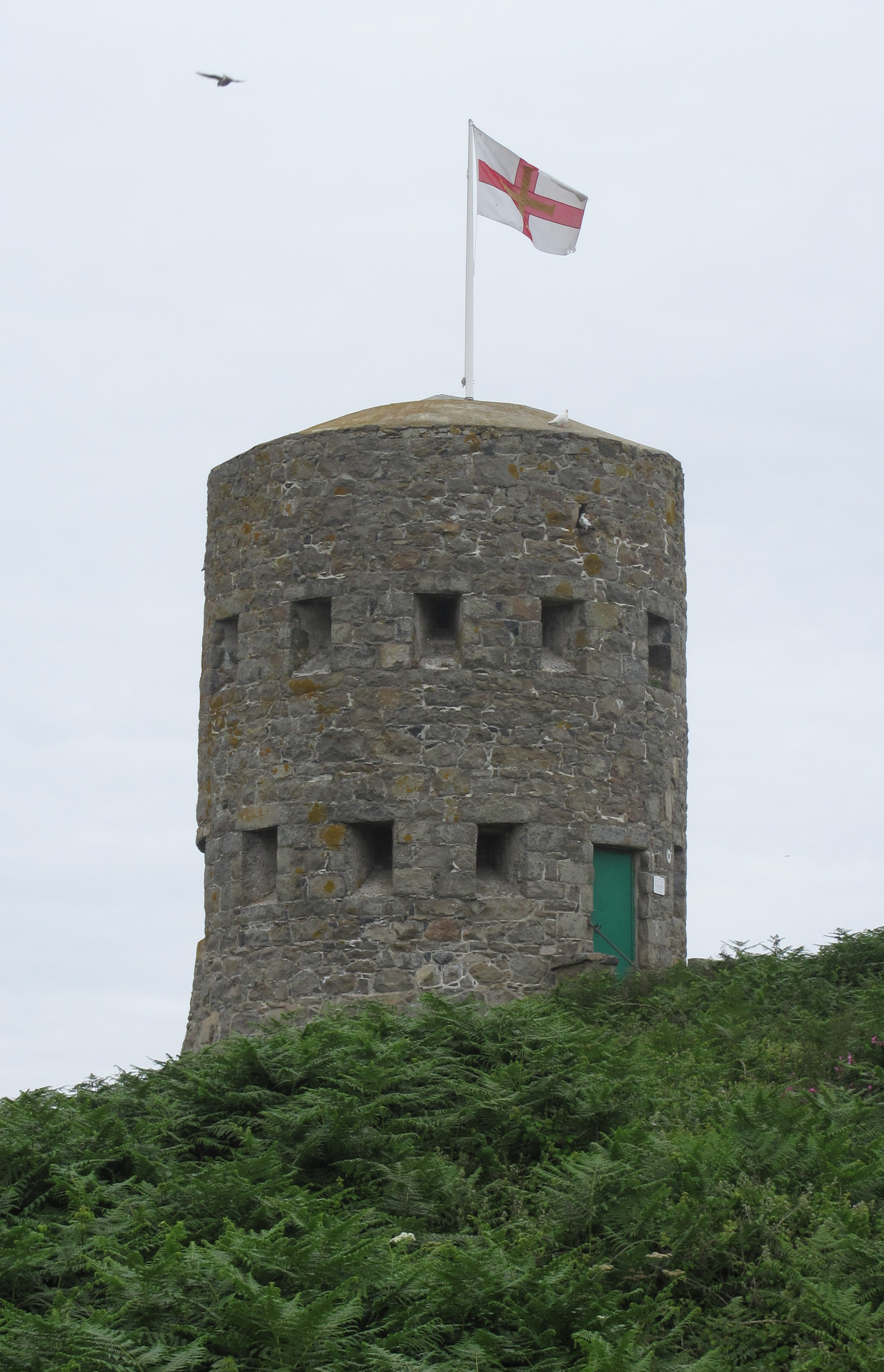 Guernsey, 2 July 2010: L'Ancresse